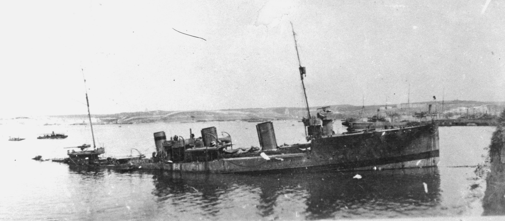 Destroyer Gnevnyi at Sevastopol, May 1918.